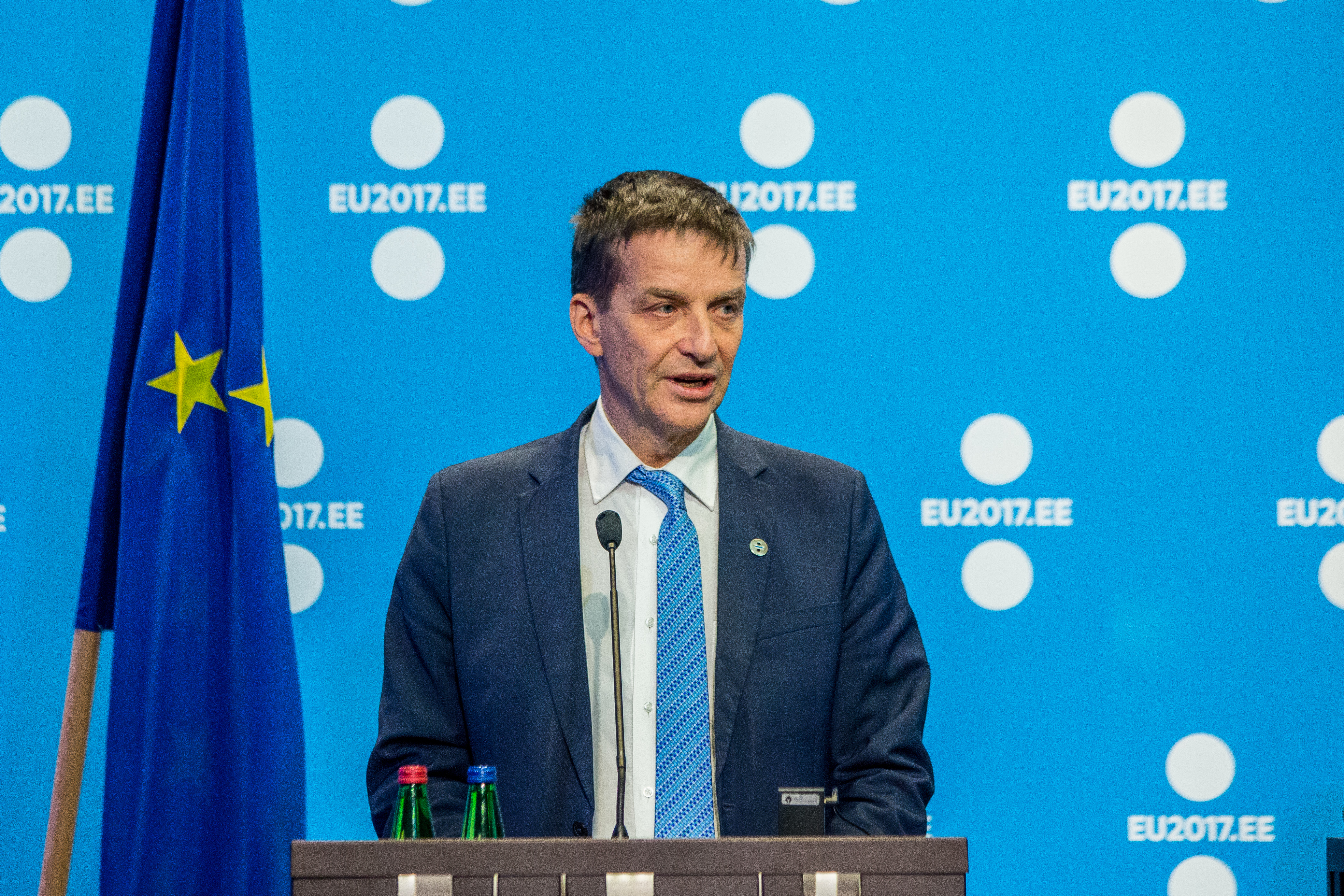 Ardo Hansson, Governor of Bank of Estonia Photo: Aron Urb (EU2017EE)